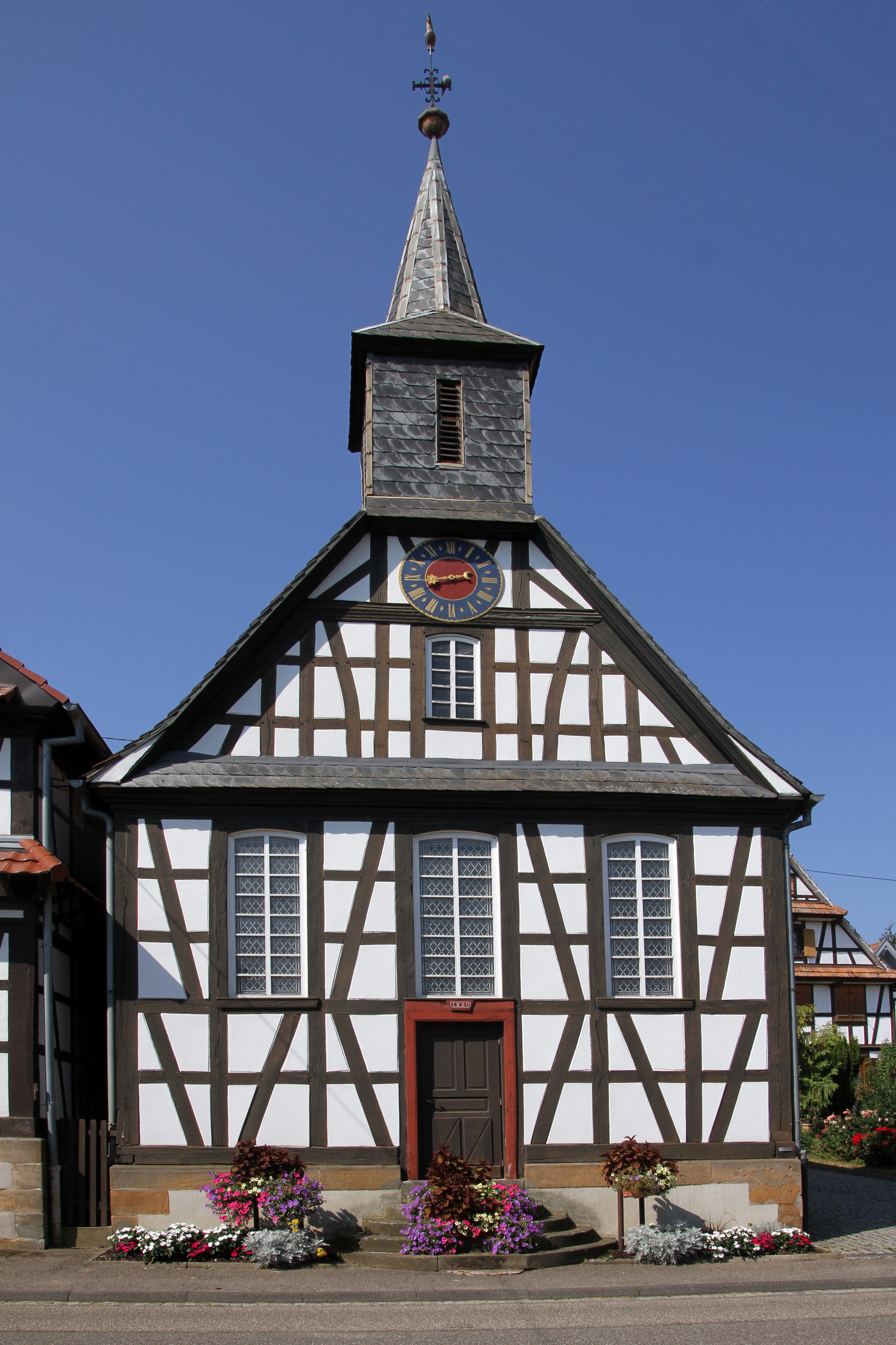 Church in Kuhlendorf.